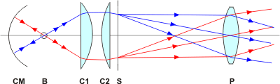 Slide projector diagramme CM = condensor mirror, B = light source, C1 & C2 = condensor lenses, S = slide, P = projection lens